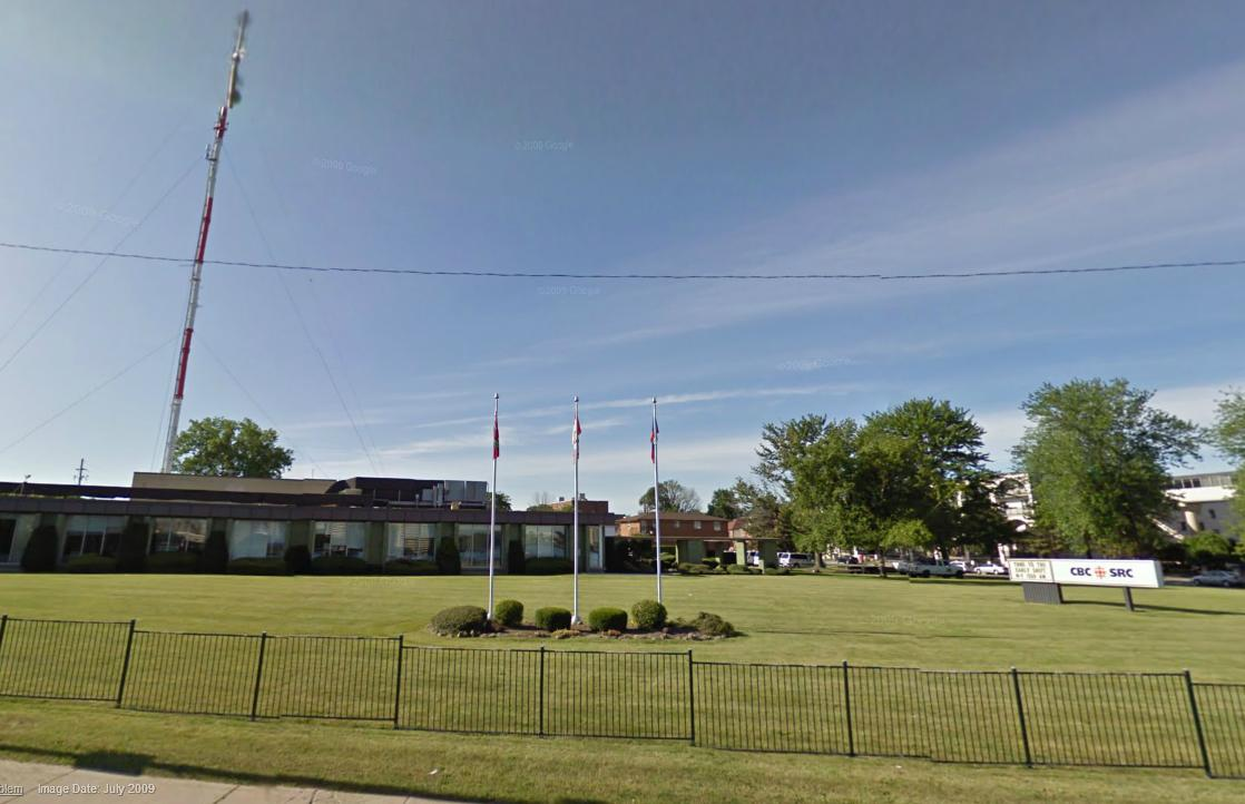 The studios of CBET Television (formerly CKLW-TV) a CBC owned station in Windsor, Ontario. Also former studios of CKLW AM and CKLW-FM (now CIDR-FM).